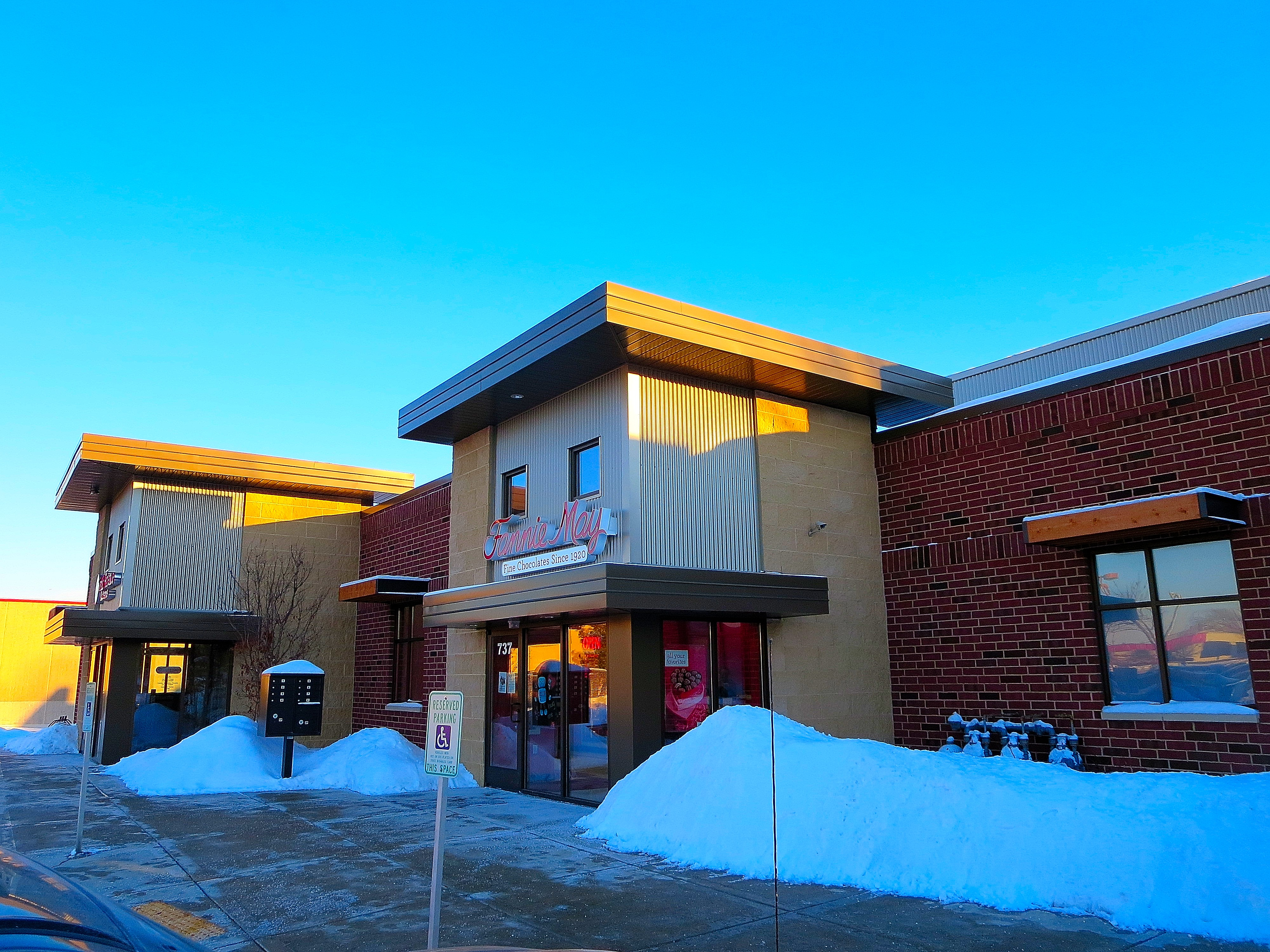 Fannie May Chocolates